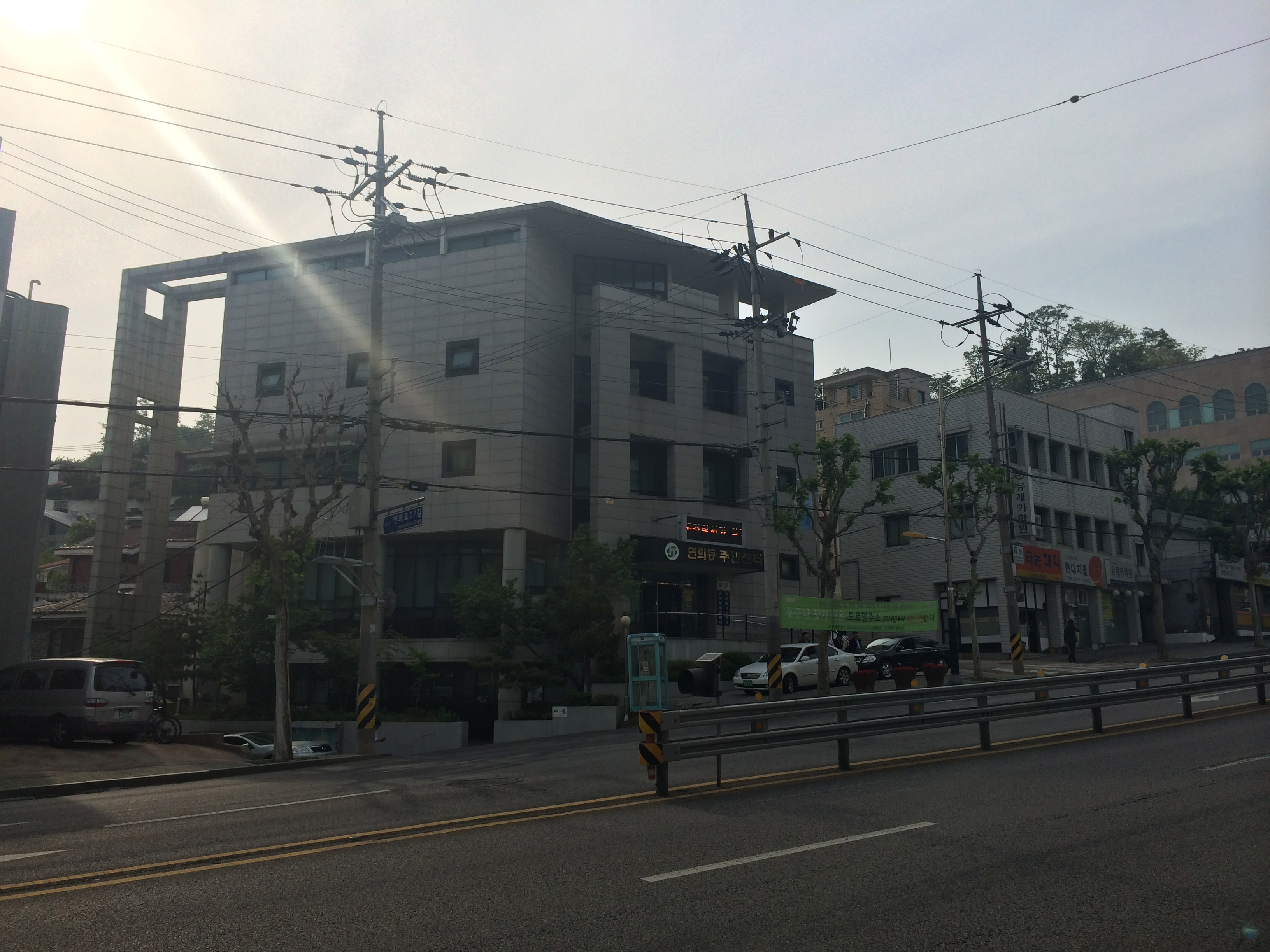 Yeonhui-dong Comunity Service Center (Seodaemun-gu)